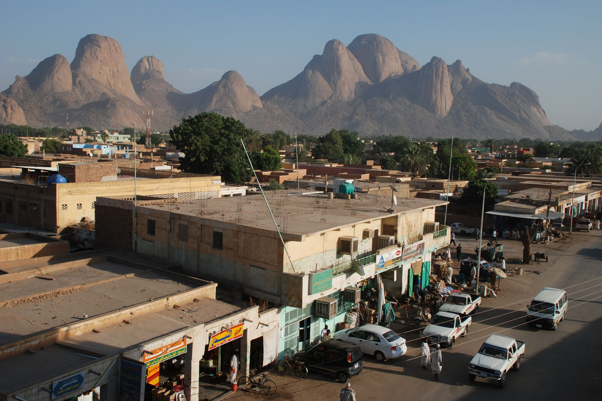 From Kassala center to Taka Mountains (granite domes), Sudan